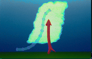 Tilting of an horizontal vortex into a vertical mesocyclone by the updraft of a thunderstorm.